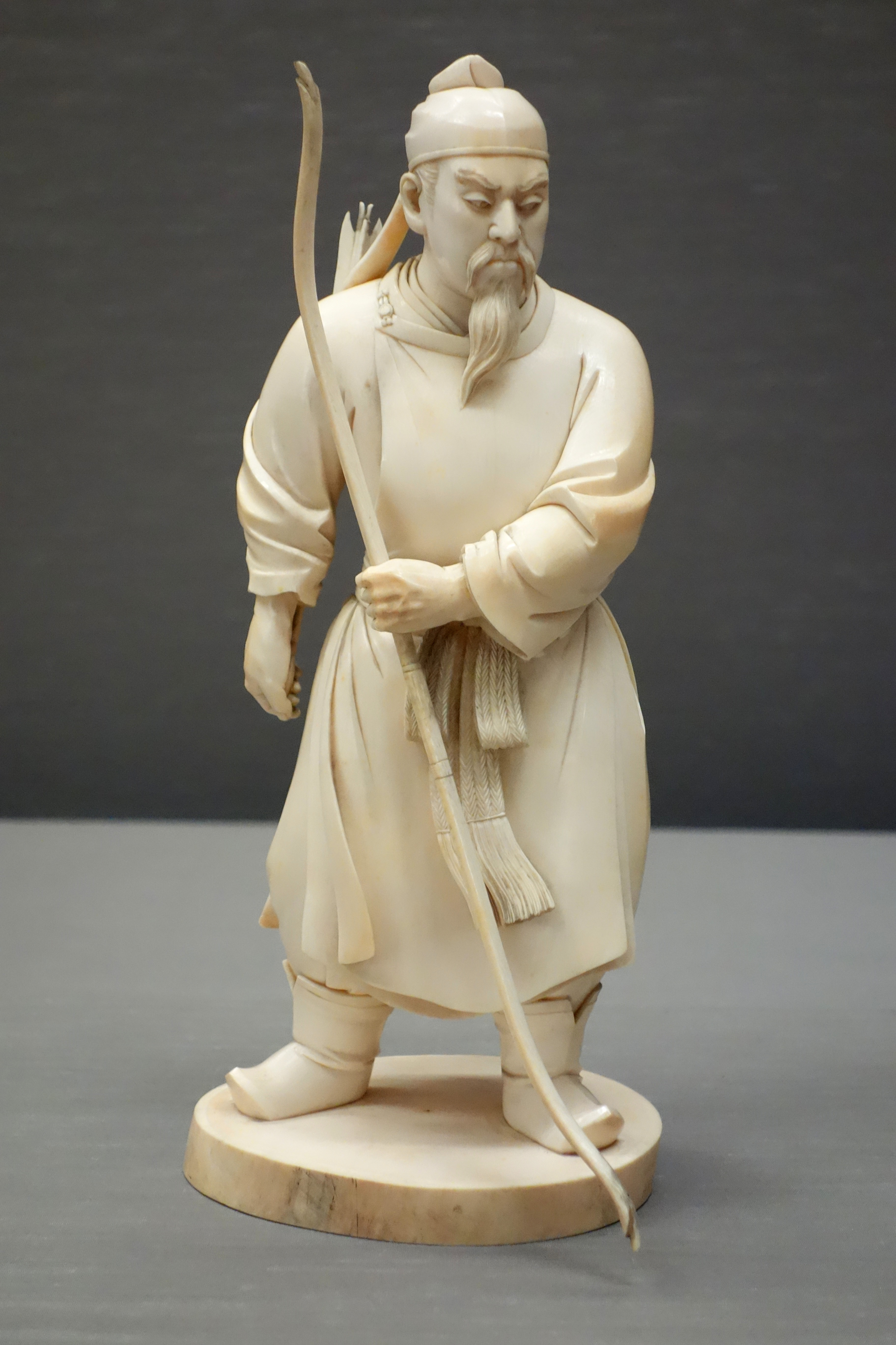 Exhibit in the Tokyo National Museum, Tokyo, Japan. This artwork is old enough so that it is in the public domain.